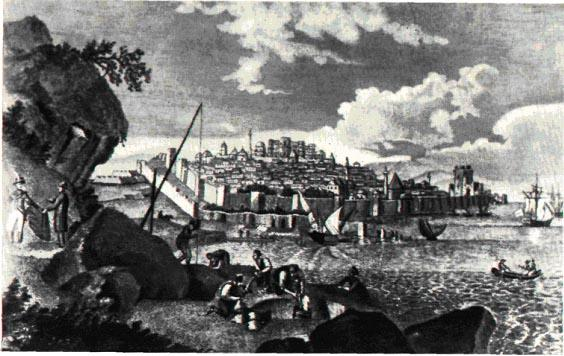 "View of Baku near Caspian sea"